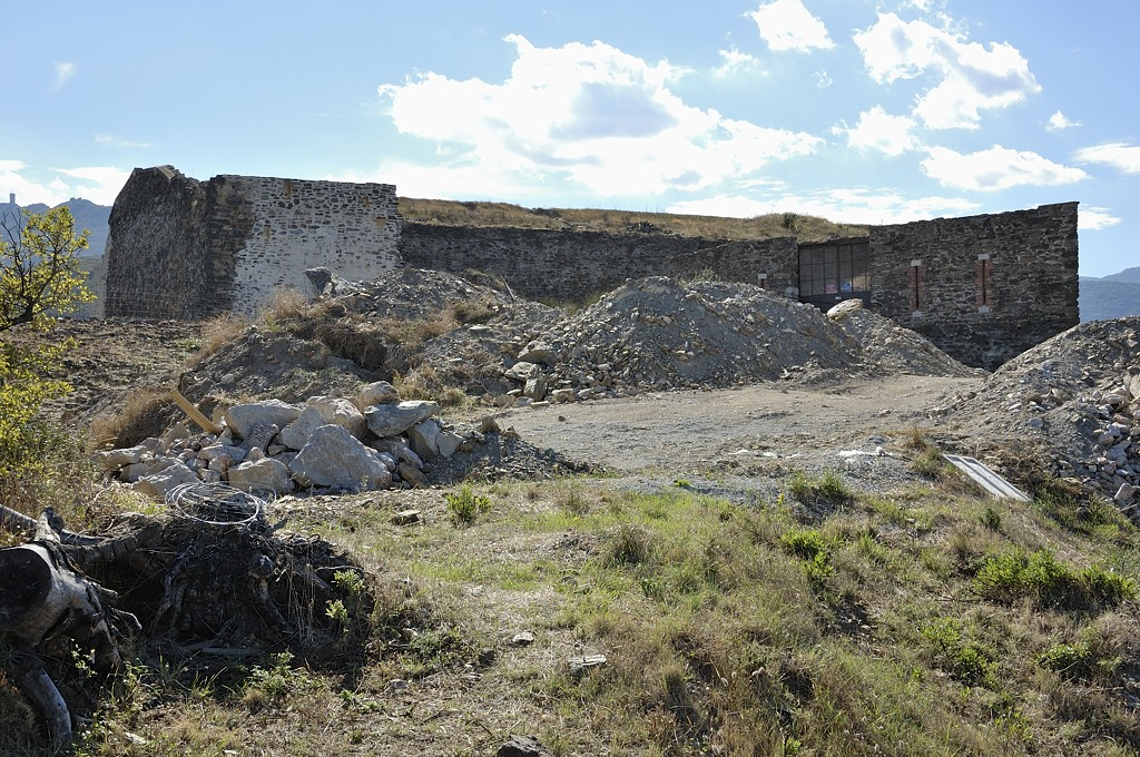 Fort Dugommier